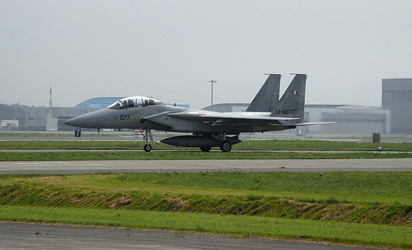 F-15DJ (077) of 203 Sqn taxis on the runway of Chitose Air Base before taking off.Ricoh R10